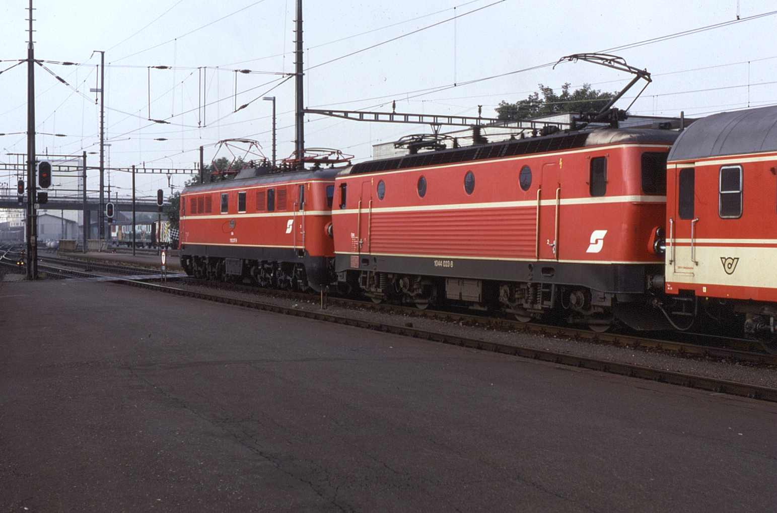 With an unidentified class 1110 leading and 1044.023 behind on a service at St. Valentin on 4 August 1988.